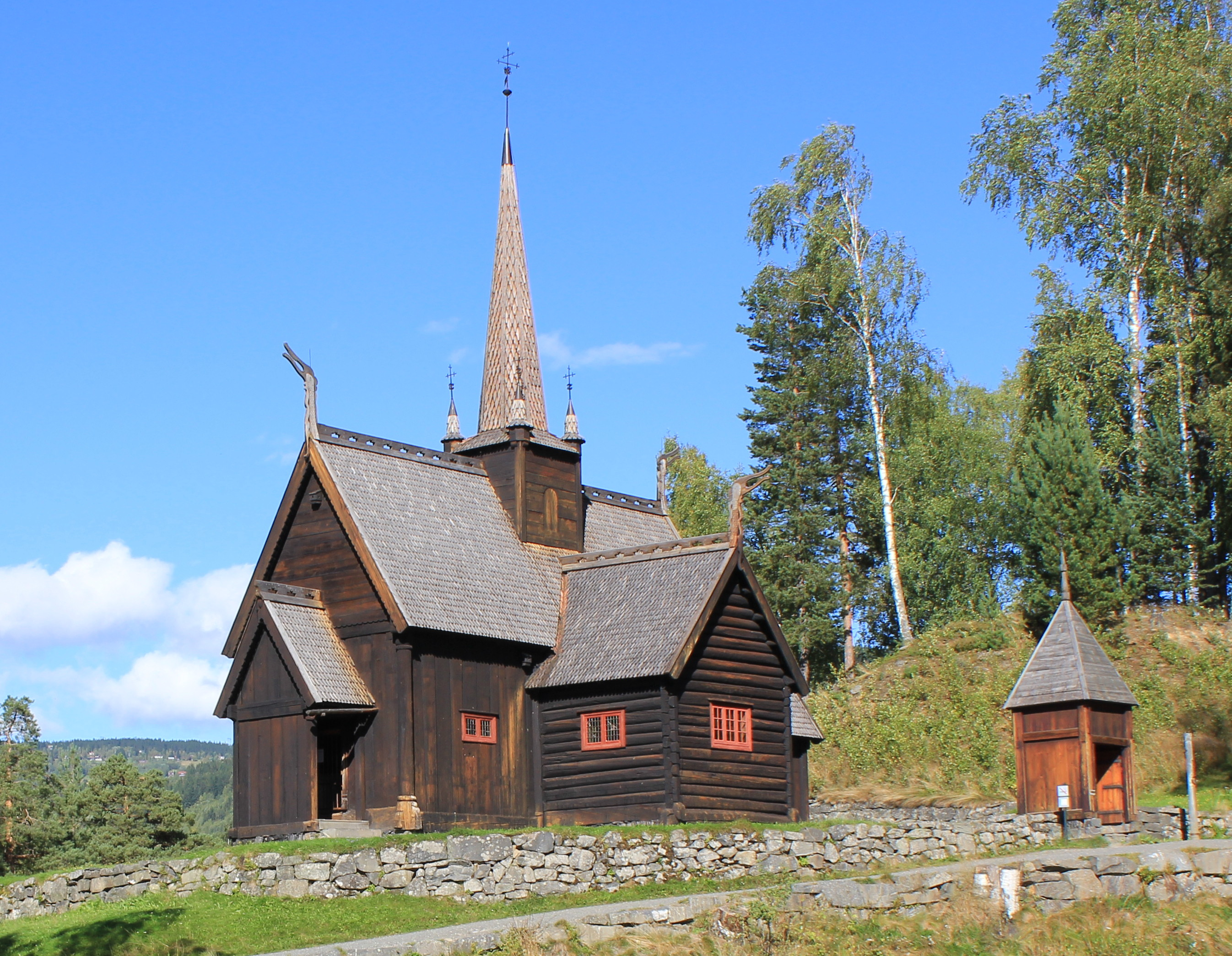 The stave church (Garmo stave church) at Maihaugen country museum, Lillehammer, Norway.